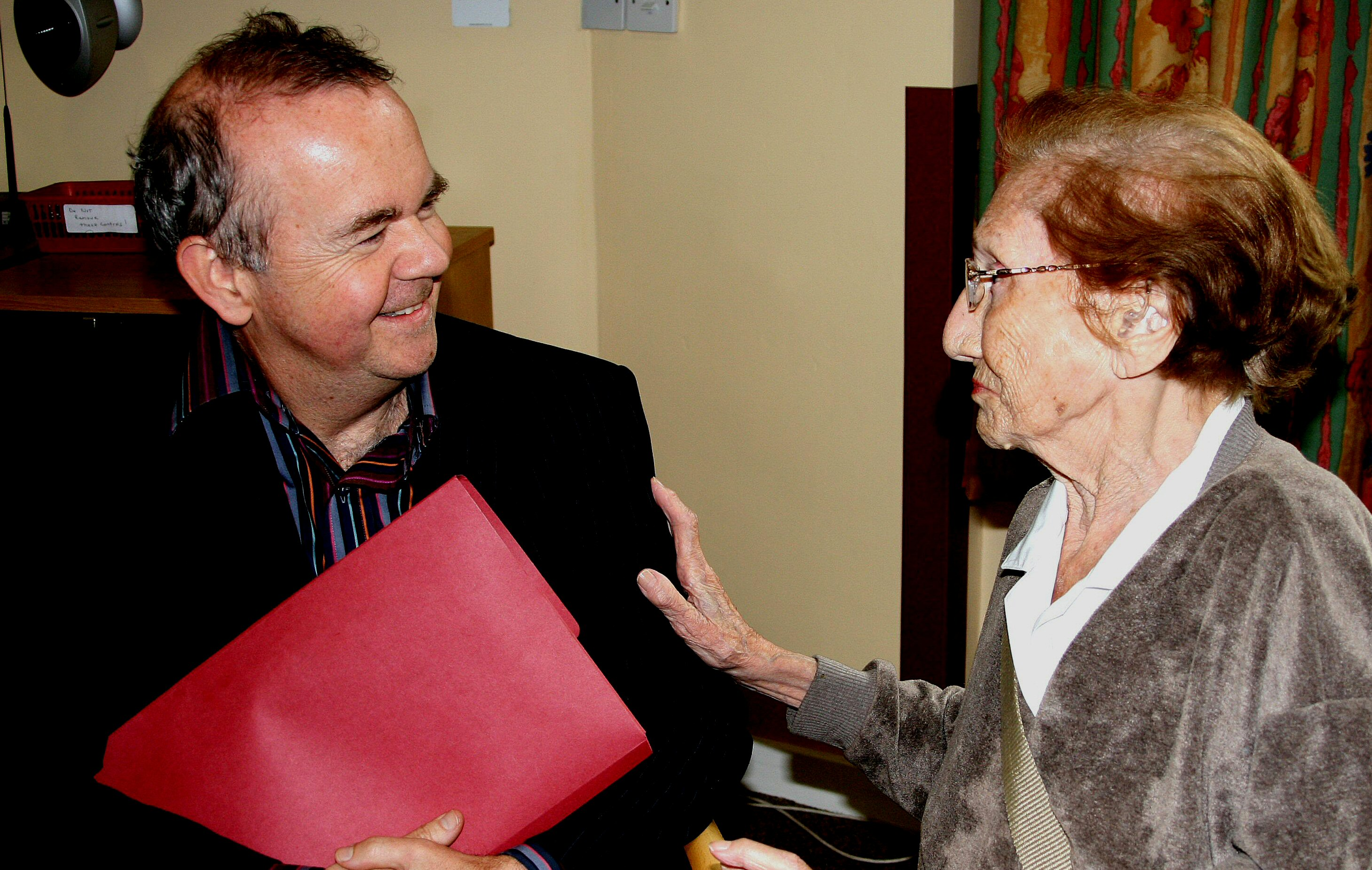 Ian Hislop chats to a resident at Nightingale House,Nightingale Lane, London.